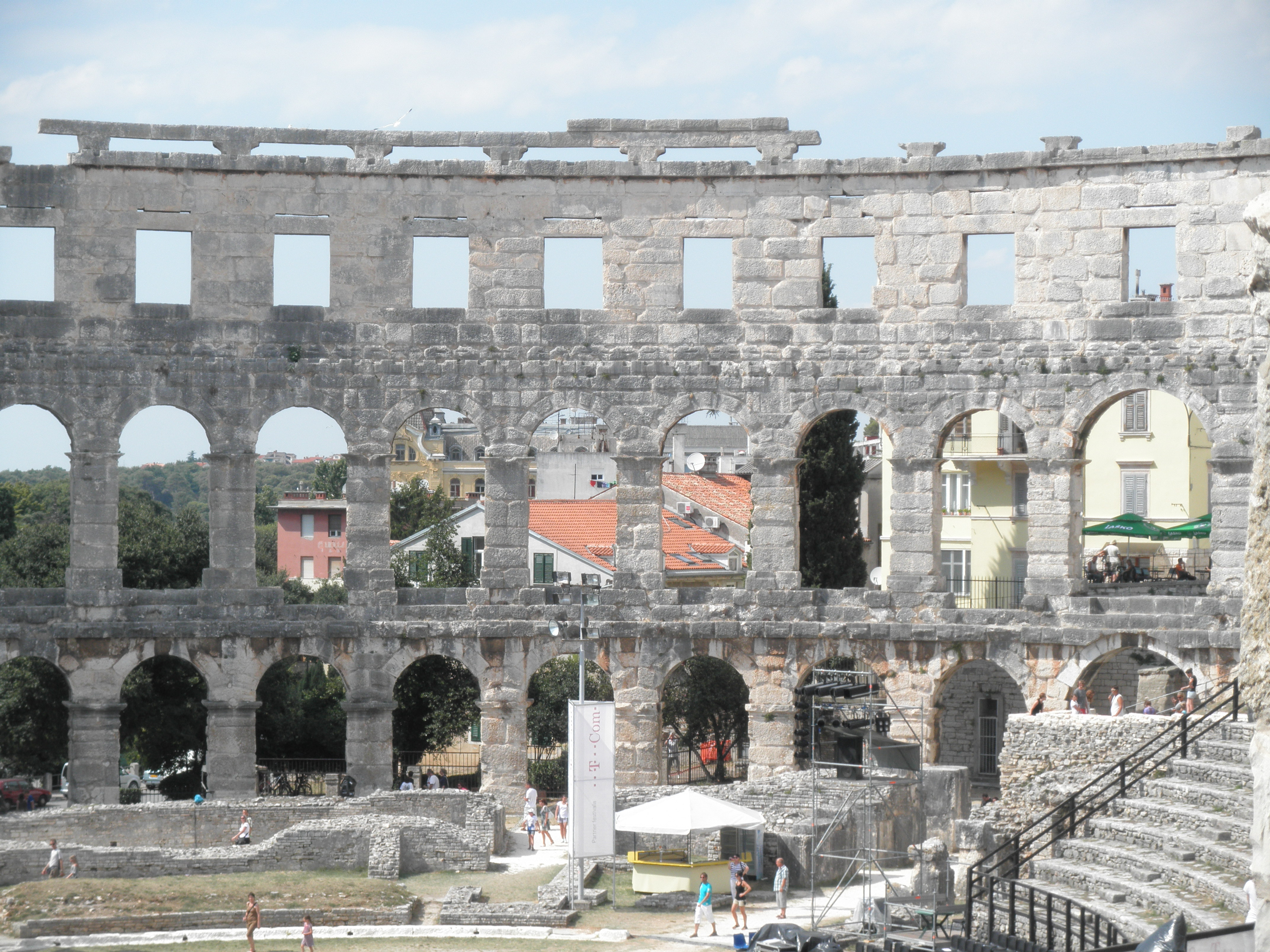 The Roman Amphitheatre of Pula in Istria